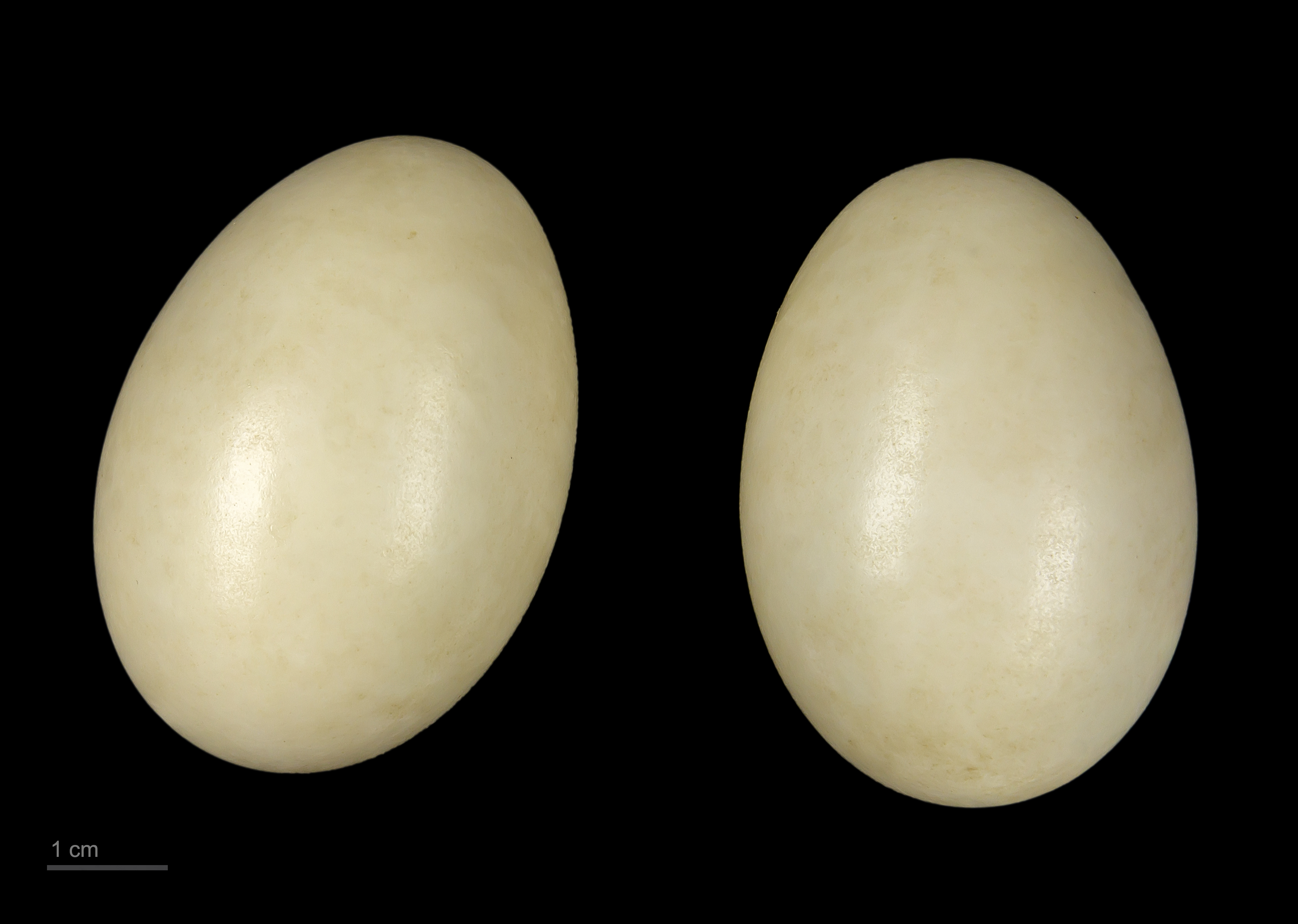 Egg of bufflehead Collection of Jacques Perrin de Brichambaut.